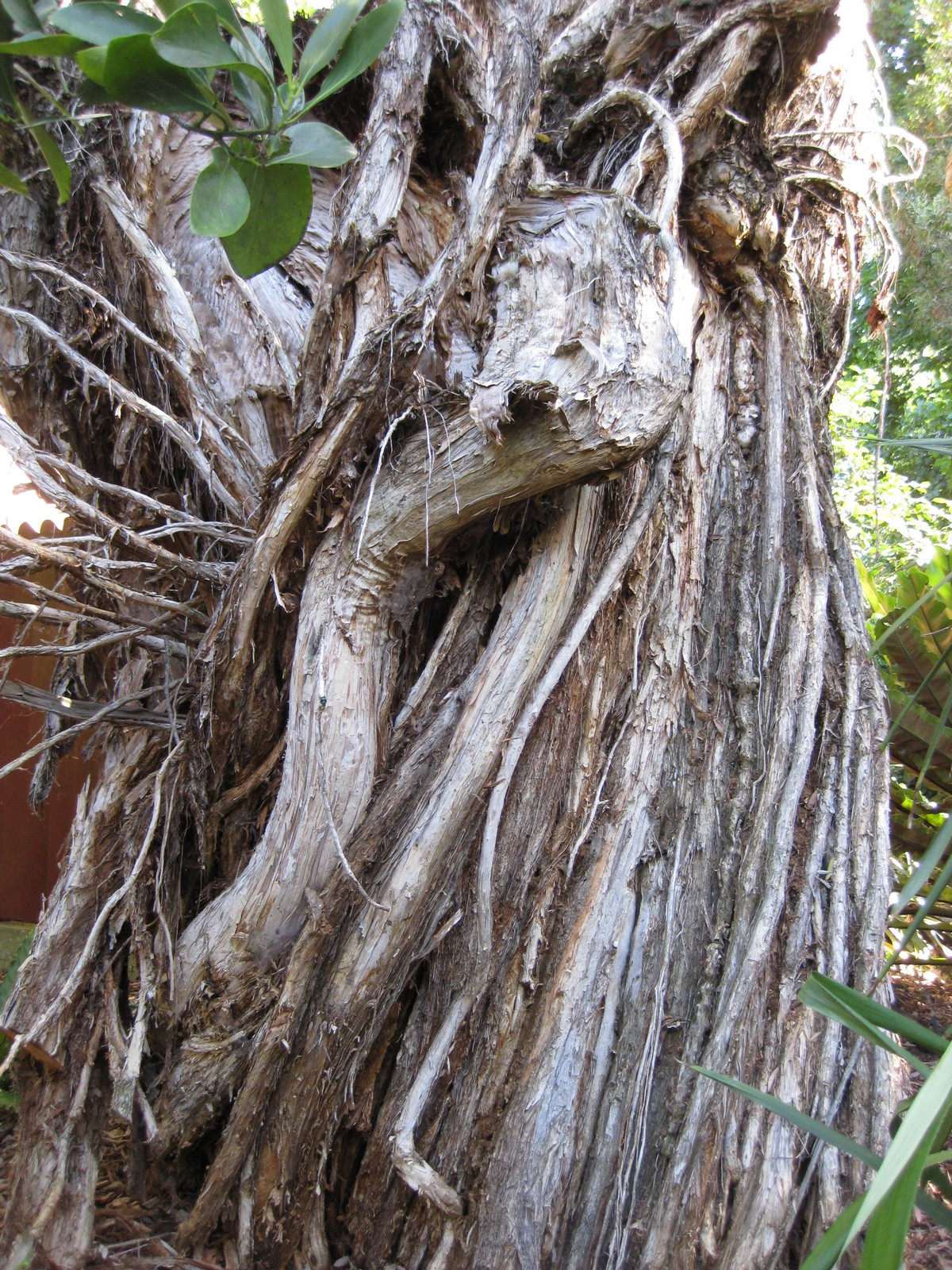 Photographed at the Royal Botanic Gardens Sydney (Australia) in December